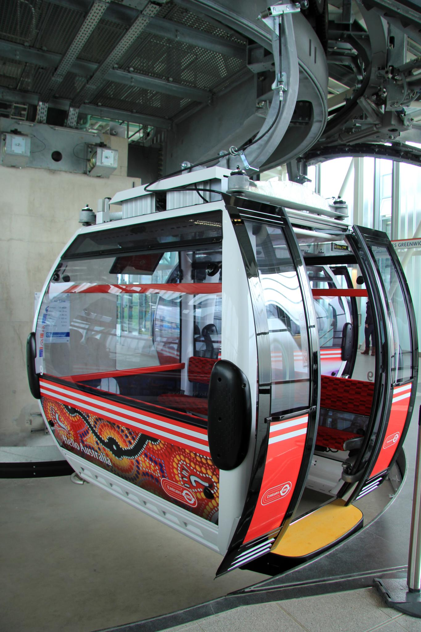 The new Thames cable car, spanning the river, opened to the public on 28th June 2012. The Emirates Air Line links the O2 Arena in Greenwich, south-east London, with the ExCel exhibition centre at the Royal Docks in east London. The service can carry 2,500 people an hour. A single adult fare on the pay-as-you-go Oyster card will cost £3.20 while the cash fare is £4.30. But the fares are not included in travelcards or Oyster capping. The service will operate through the week from 07:00 until 21:00. The gates will open an hour later on Saturdays while the service will run from 09:00 on Sundays. Passengers will also be able to make a non-stop round trip on the cable car, with views of the City, Canary Wharf, the Thames Barrier and the Olympic Park, at a cost of £6.40 with Oyster. But Transport for London said a one-way journey at peak time will be between four and five minutes long, but off-peak the same journey will last about 10 minutes. The Dubai-based airline Emirates is sponsoring the cable car for 10 years at a cost of £36m. The total cost of the project is about £60m, £45m of which went towards building it. Mayor of London Boris Johnson called it a "stunning addition to London's transport network" and a "must-see destination in its own right". "We said we could deliver this travel link in quick time, and today we have shown that this city is capable of attracting serious investment to deliver world class infrastructure. As the world's eyes focus on our city, I can think of no better message to send out across the globe."